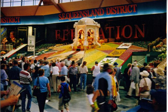 Sydney Royal Easter Show, SE Queensland, District Exhibit in 2001, the Centenary of Federation